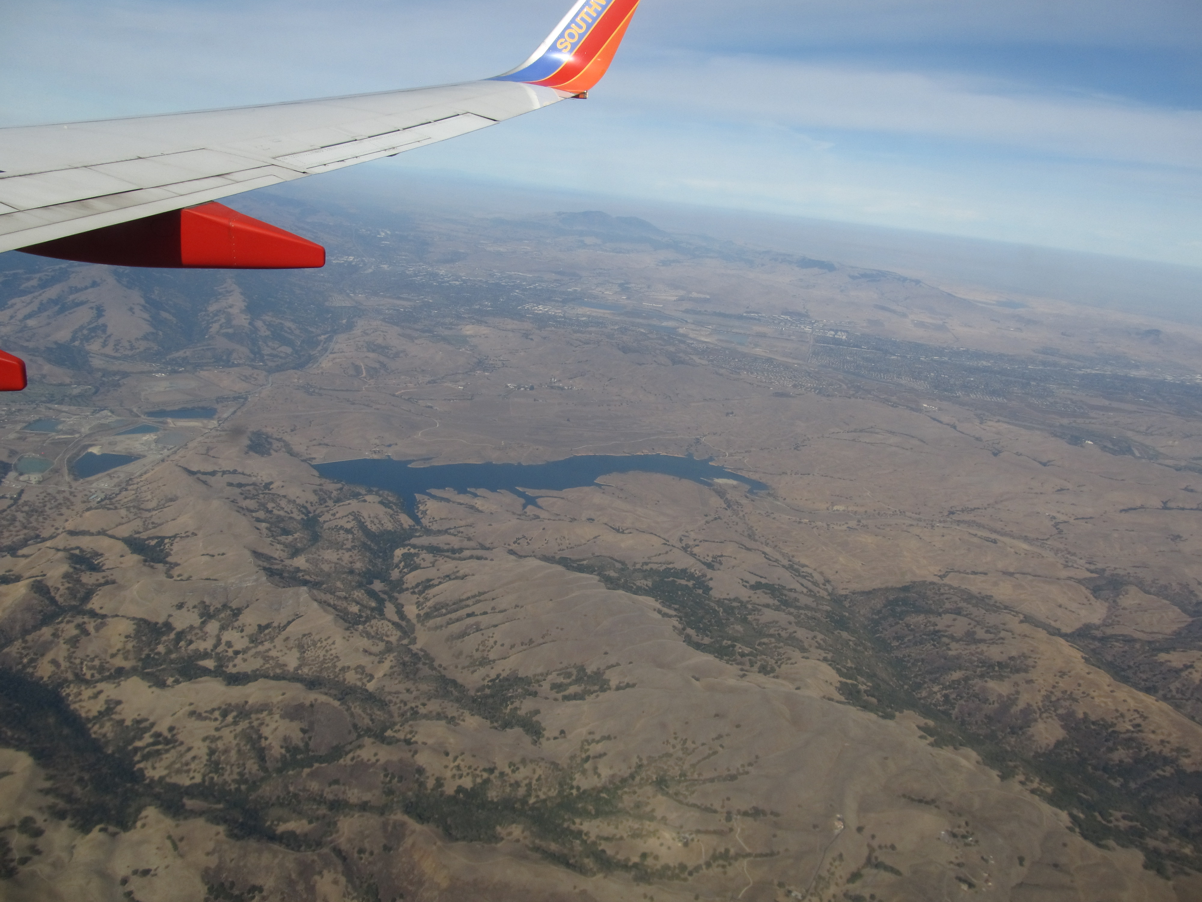 San Antonio Reservoir is located in Alameda County, California, about three miles east-southeast of Sunol. It was built in 1964[1] by the City and County of San Francisco. Formed by the James H. Turner Dam[2] across San Antonio Creek[1] not far above where it flows into Alameda Creek, its purpose is to store water from the Hetch Hetchy Aqueduct and local wells and watersheds. It has a capacity of 50,500 acre feet (62,300,000 m3). The reservoir is not open to the public.